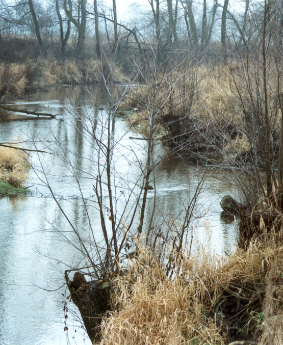 Czarna River in winter, Poland, near Staszów town.